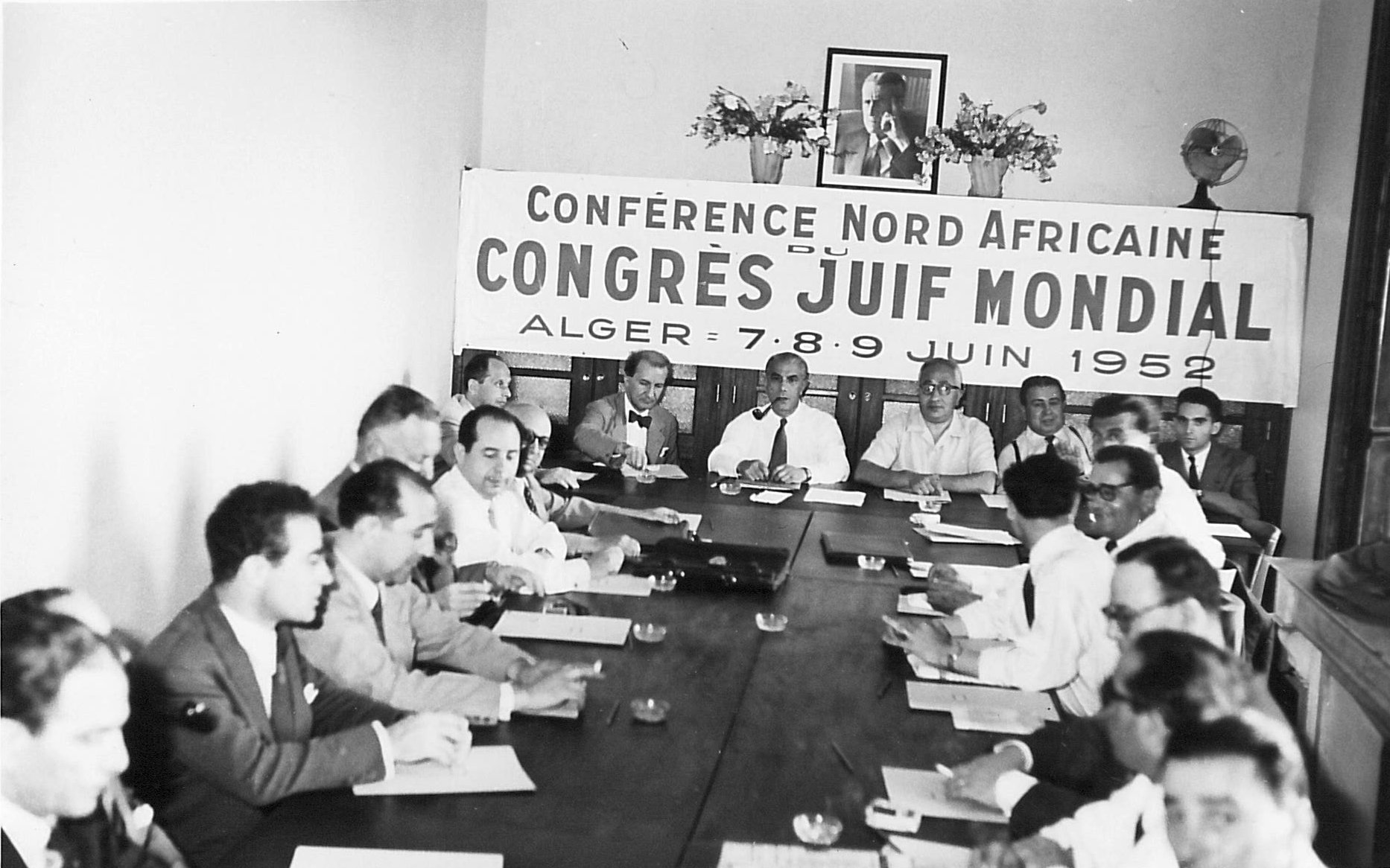 World Jewish Congress in Algiers, Algeria, from 7-9 June 1952, on the situation of Jews in northern Africa